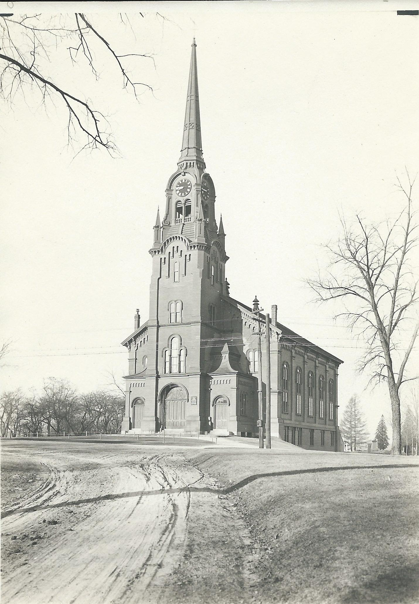 A photograph of the South Church, Andover, Massachusetts c.1920. Built in 1860.